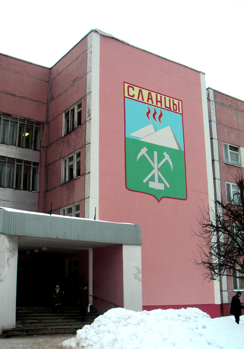 Building in Slantsy, carrying the town's coat of arms. I took this picture.